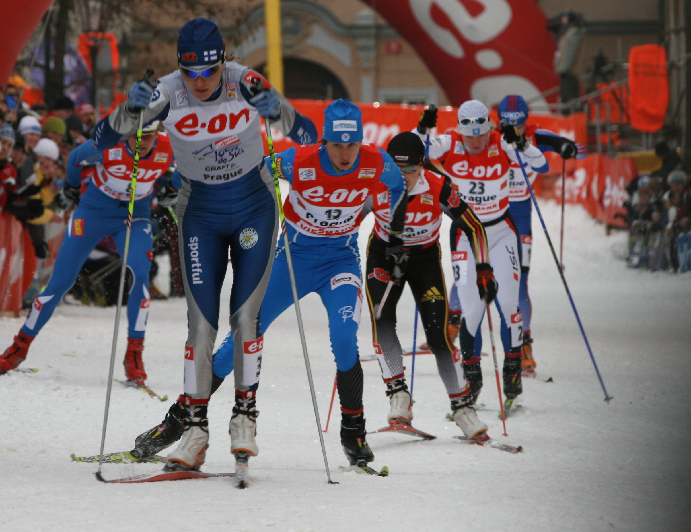 Alena Procházková (number 13, slightly behind numberless Virpi Kuitunen) at quaterfinals of Tour de ski in Prague